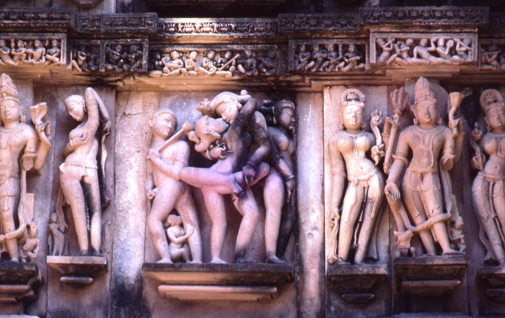 Mithuna, Lakshmana Temple, Khajuraho, Madhya Pradesh, India.